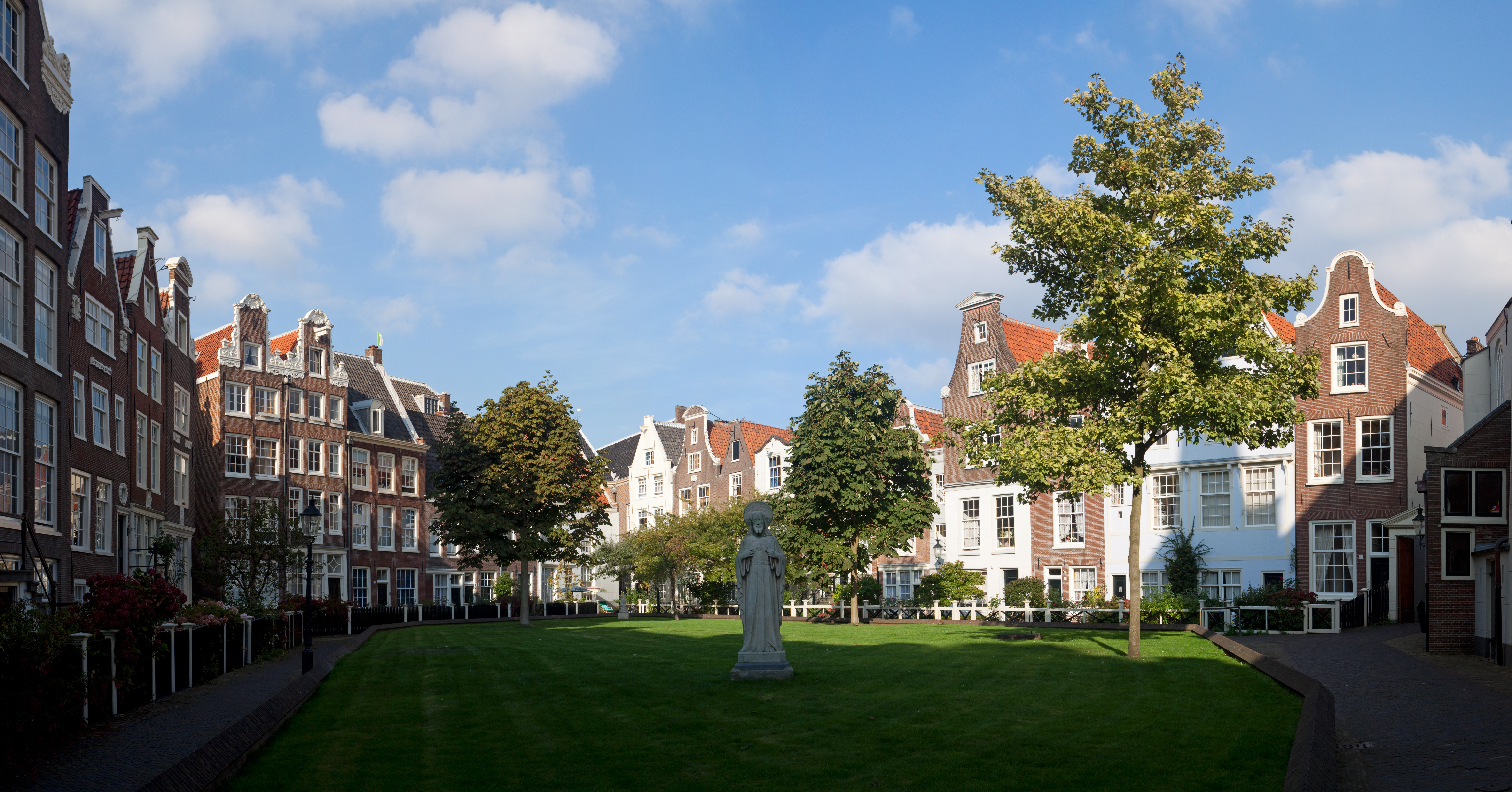 The Begijnhof (Beguinage) is an enclosed courtyard in Amsterdam, the Netherlands and a major tourist attraction.